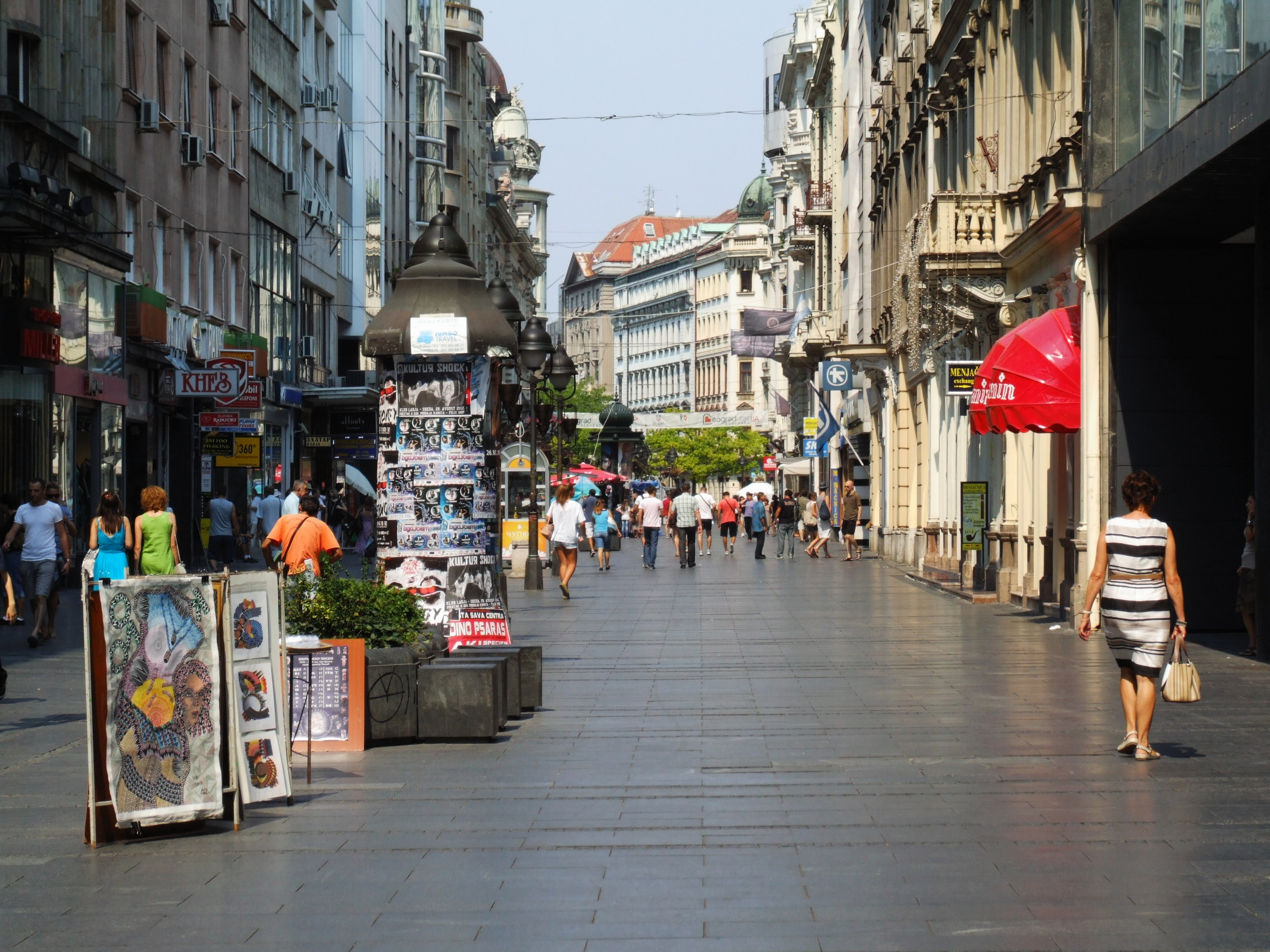 Knez Mihailova street, Belgrade